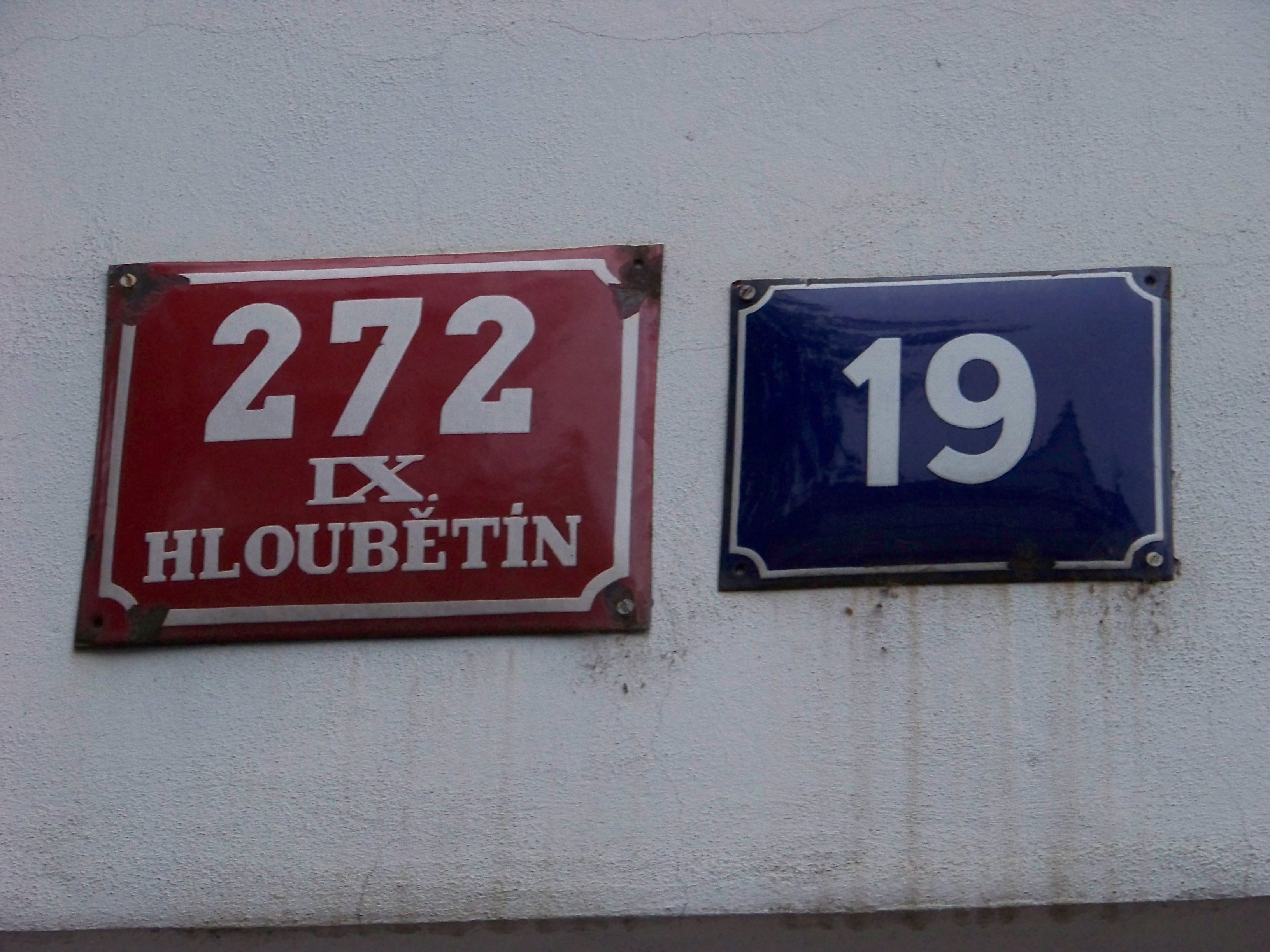 Prague-Hloubětín, the Czech Republic. Konzumní 272/19, house numbers.